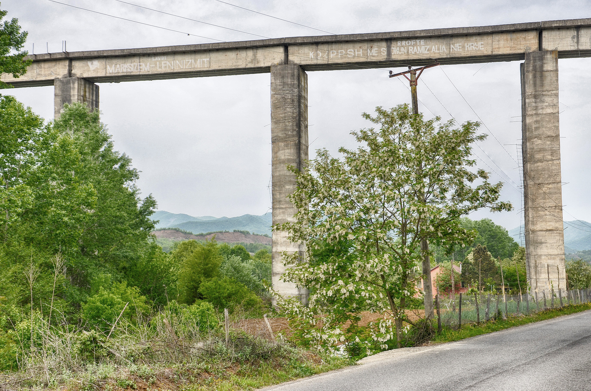 Communist slogans on the Tarazhi Bridge near Rrëshen, Albania